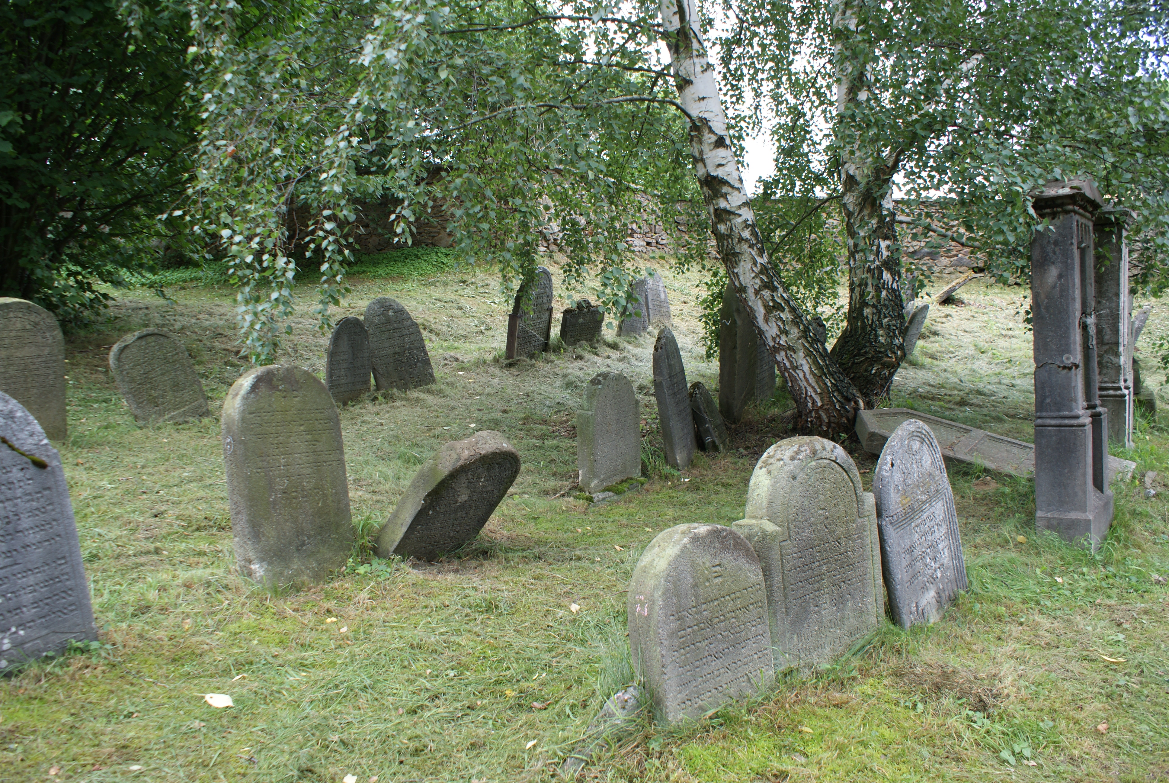 Jewish cemetery in Janovice nad Úhlavou, Klatovy district, Czech Republic. Česky: Židovský hřbitov v Janovicích nad Úhlavou okr. Klatovy